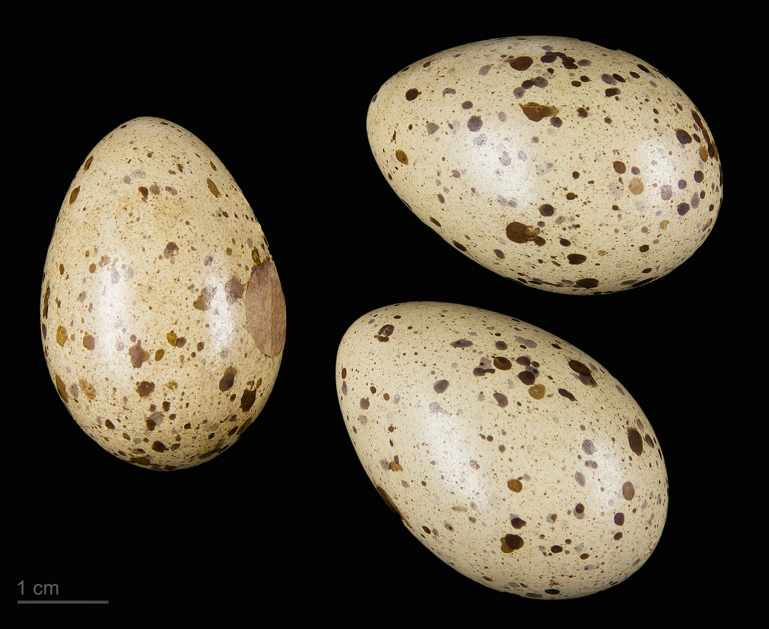 Eggs of spotted crake Three specimens of the same spawn ; collection of Jacques Perrin de Brichambaut.